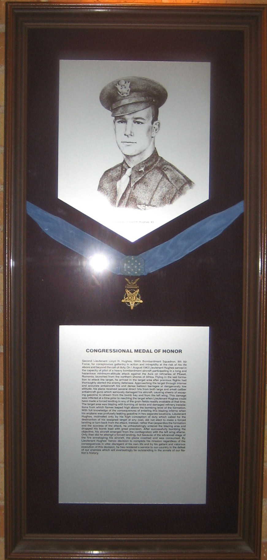 Lloyd H. Hughes' specimen Medal of Honor, a drawing of him, and his citation on display at the Memorial Student Center at Texas A&M University